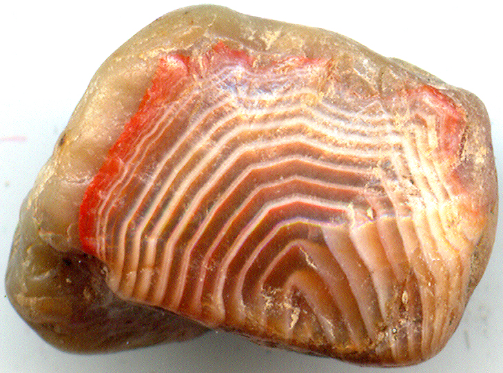 Lake Superior agate from northeast Iowa. Typical banding and colors